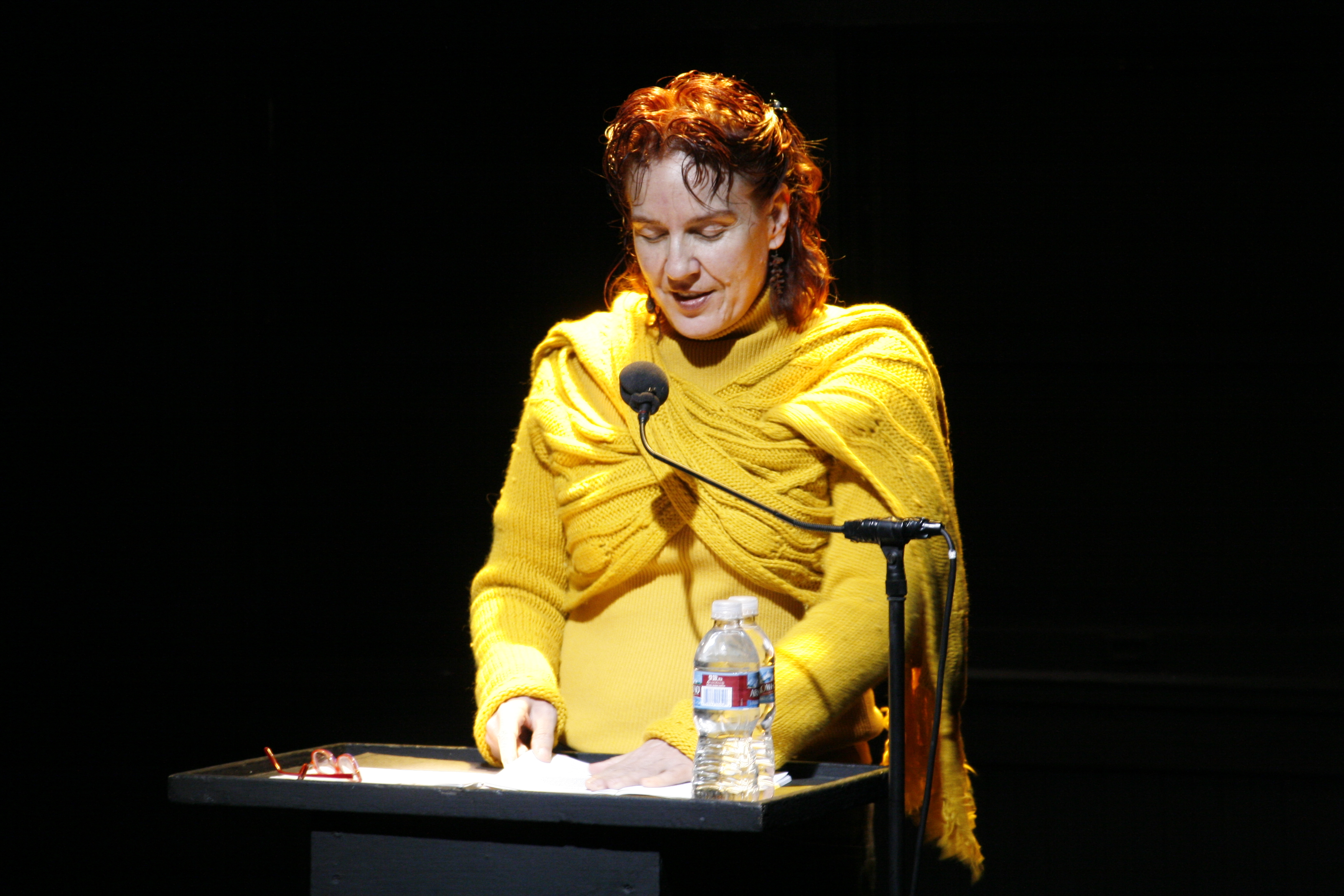 Terry Wolverton, American novelist, memoirist, poet, and editor, speaking at Beyond Baroque Literary Arts Center, Los Angeles.